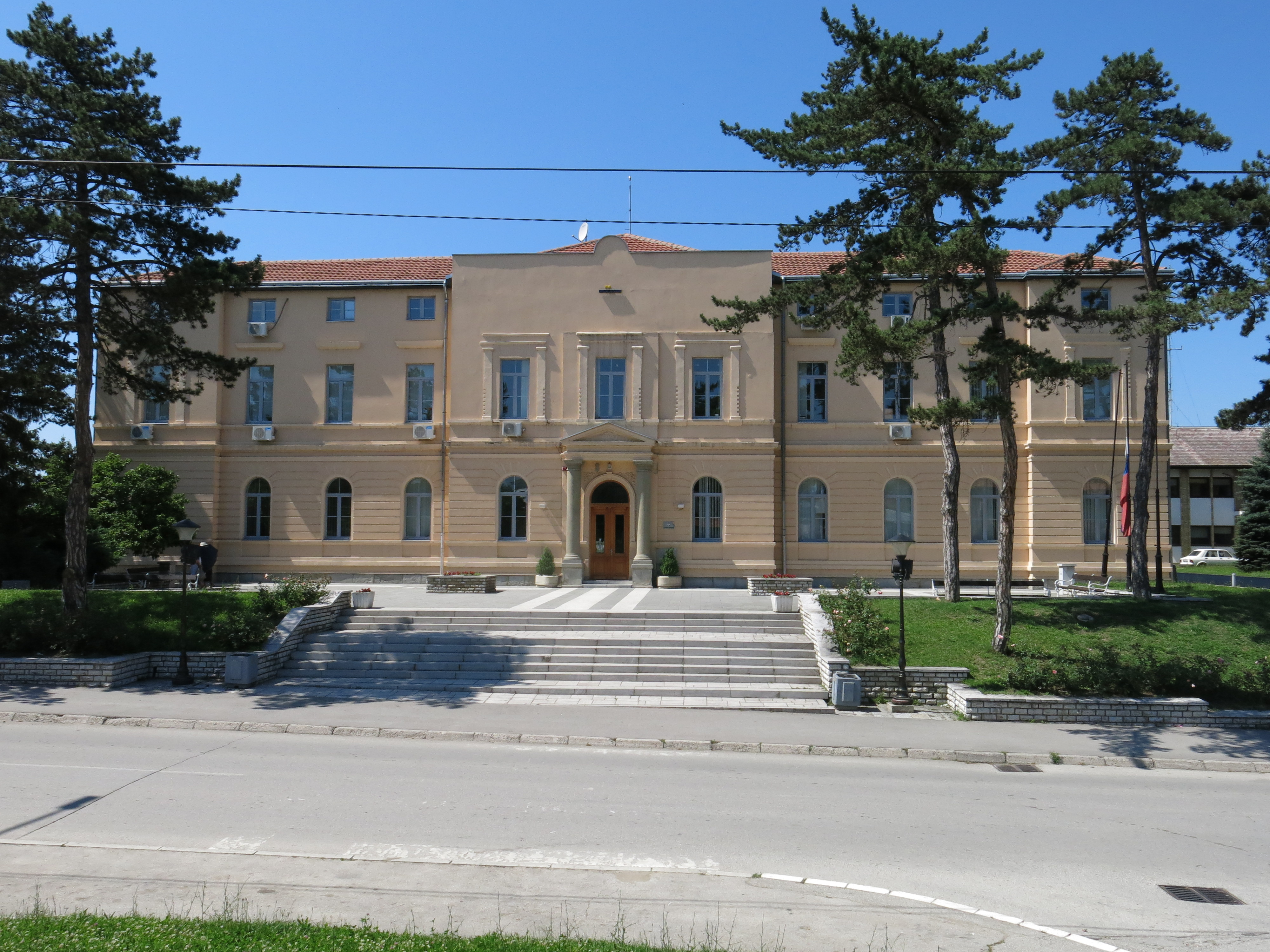 Mionica, Mionica municipality building